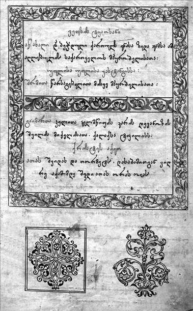 The title page of the poem Knight in the Panther's Skin by Shota Rustaveli printed in Tbilisi in 1712 under the auspices of Vakhtang VI of Kartli